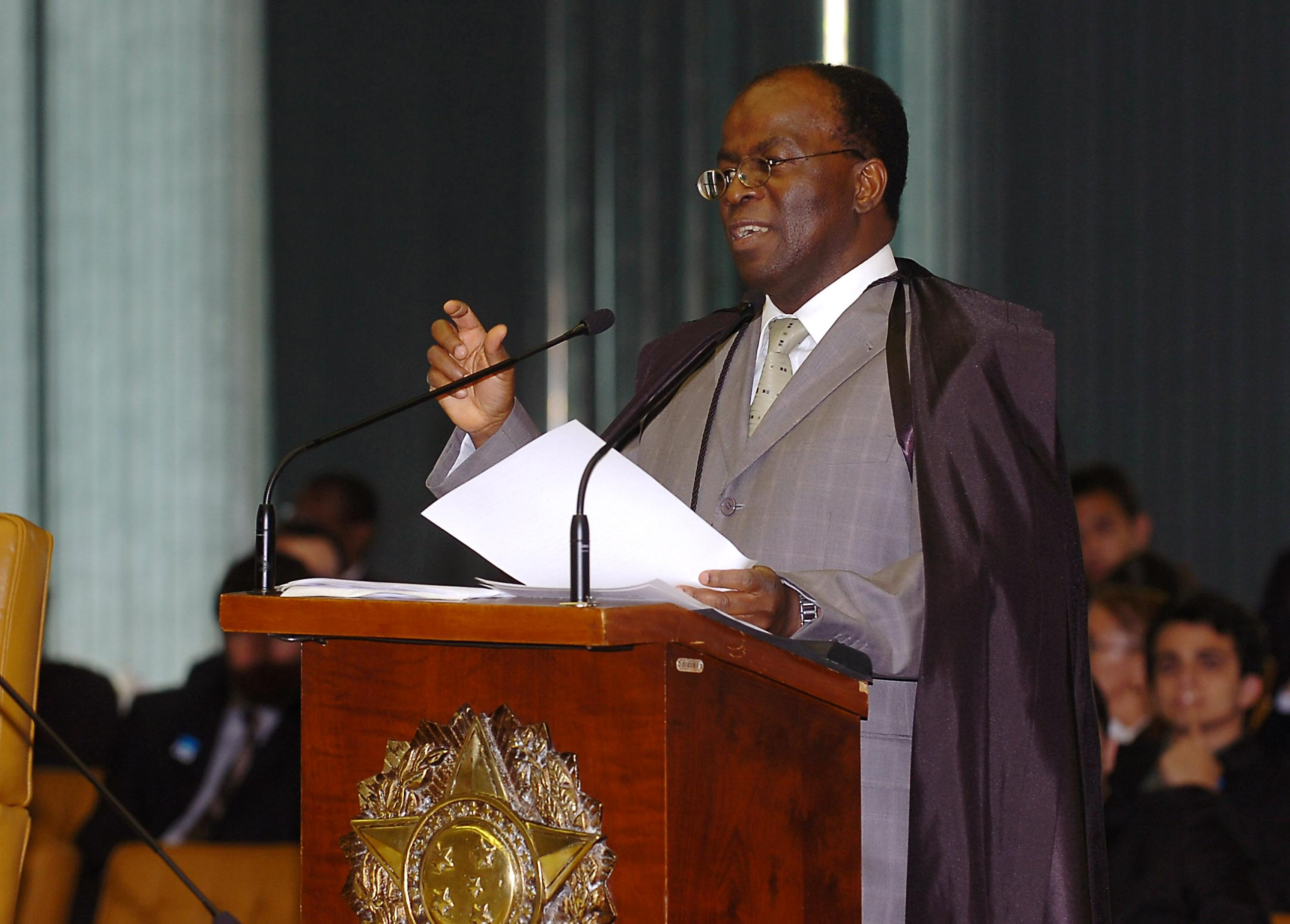 Brasília - The Minister of the Supreme Federal Court (STF) Joaquim Barbosa, rapporteur of the process that judges the indictment of the Federal Public Ministry (MPF) against 40 people accused of involvement in the case of the mensalão scandal Photo: José Cruz / ABr